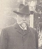 Bulgarian politican Ivan Salabashev (1853-1924).